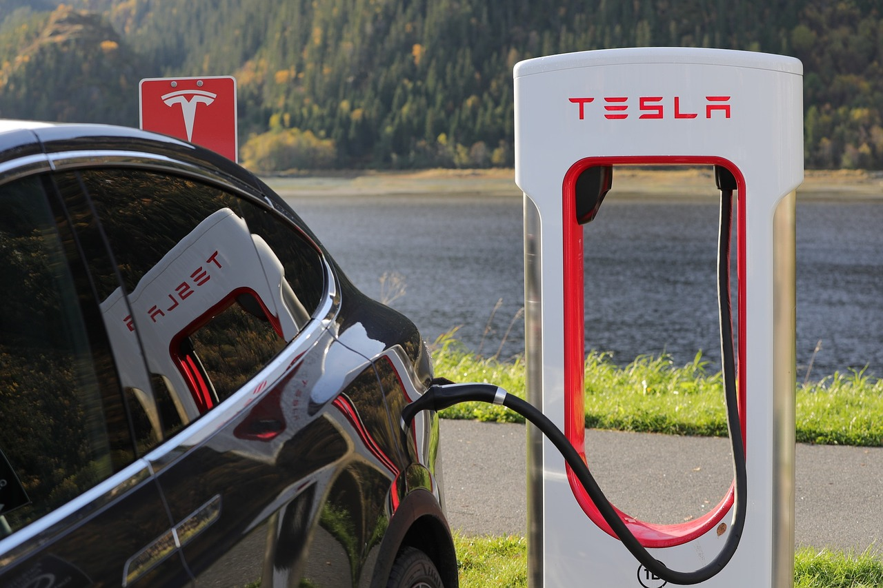 Tesla model X supercharging